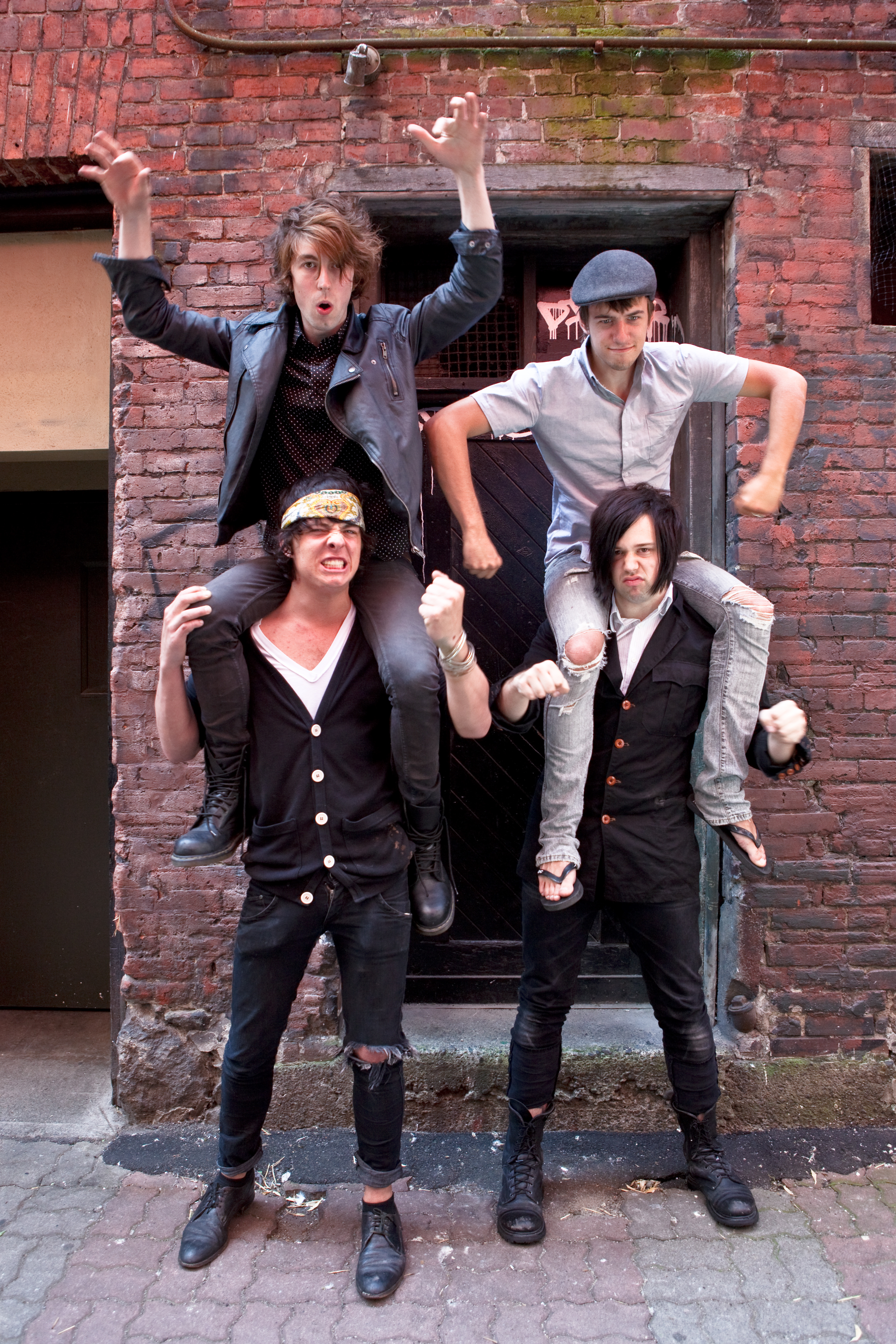 Fake Shark Real Zombie photographed in Vancouver, British Columbia by Kris Krug